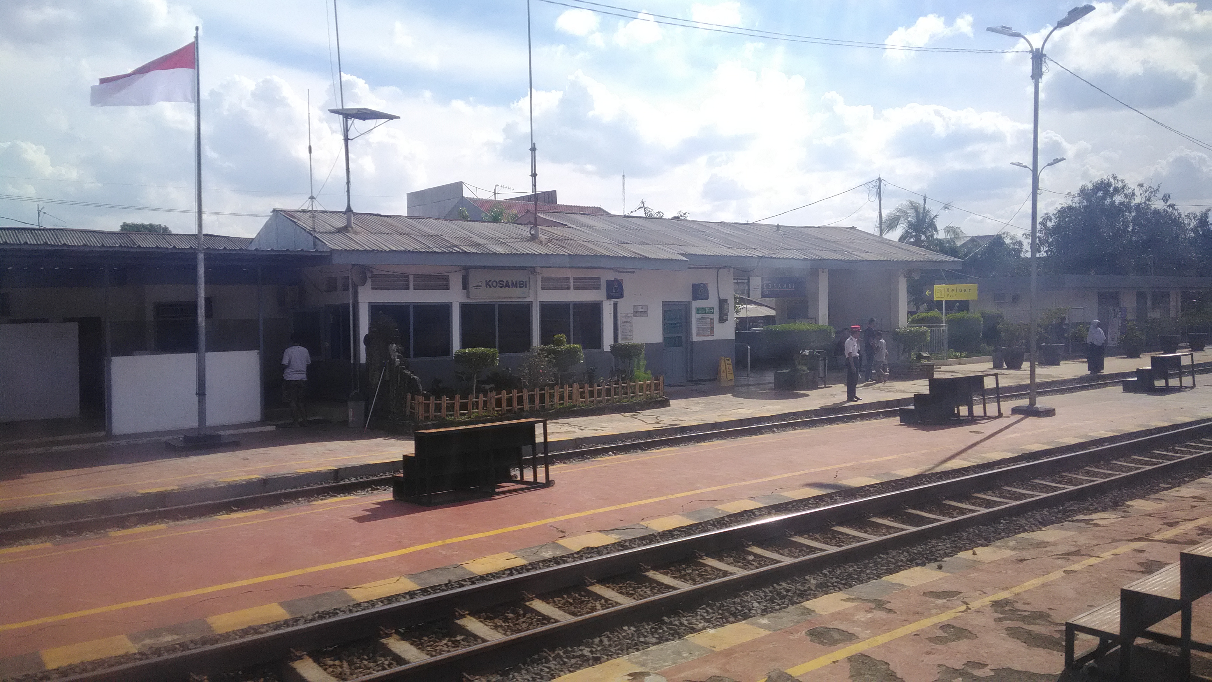 Kosambi Station